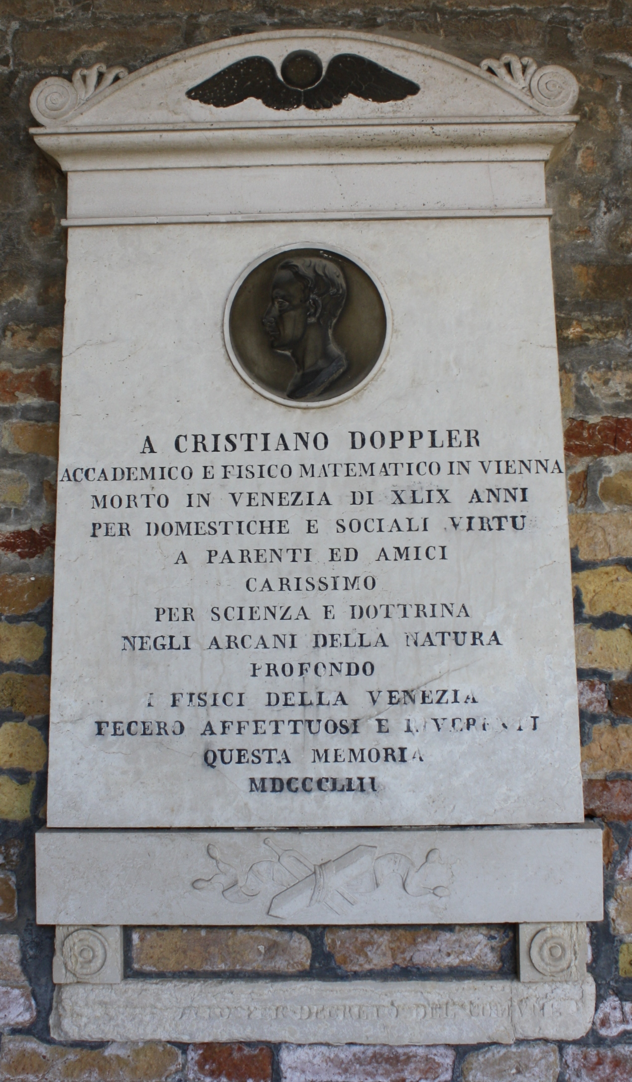 Memorial Plate of the physicist Christian Doppler on the San Michele Cemetery in Venice (Italy)